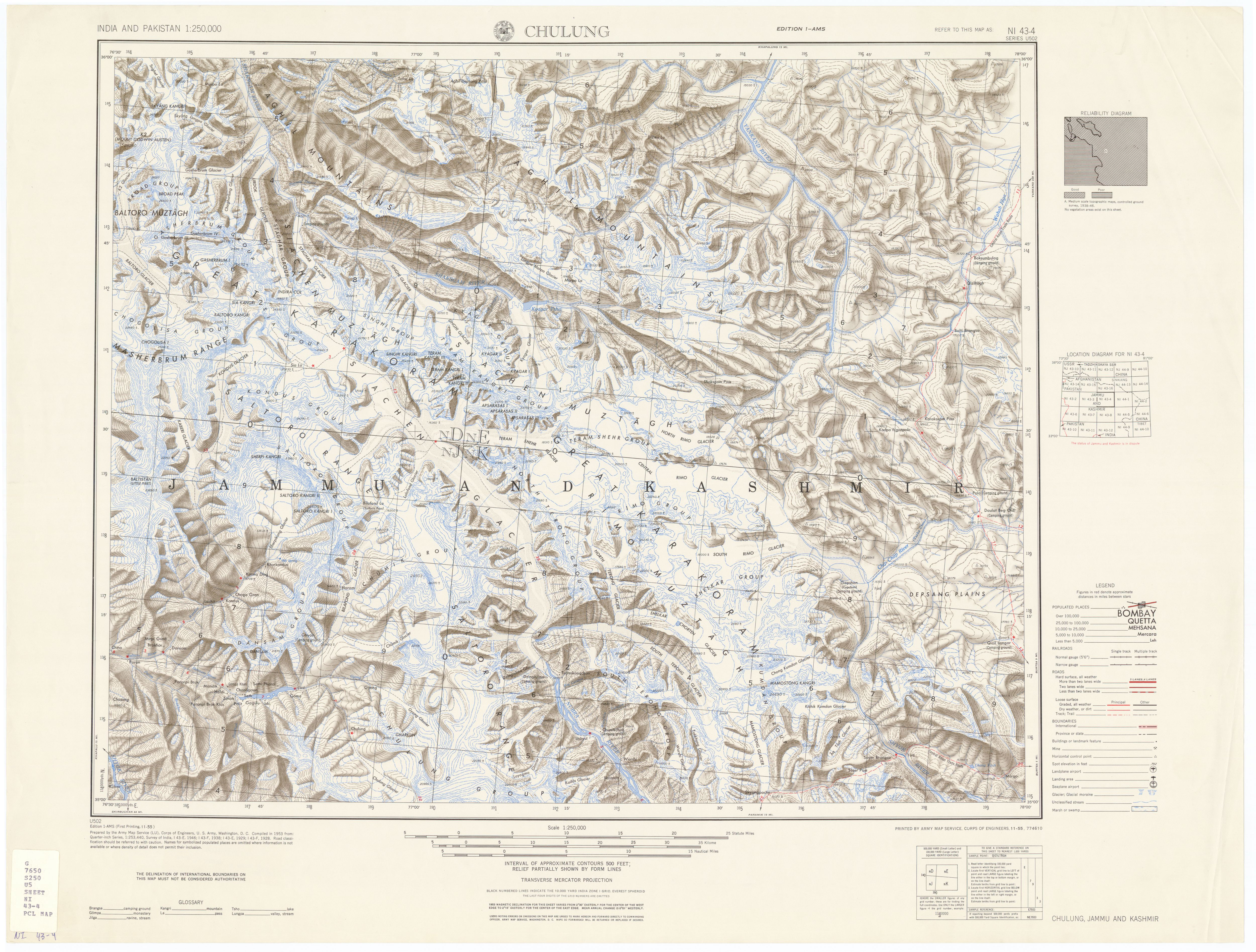 NI 43-4 Chulung. Tile of the Map India and Pakistan 1:250,000. Series U502, U.S. Army Map Service, 1955